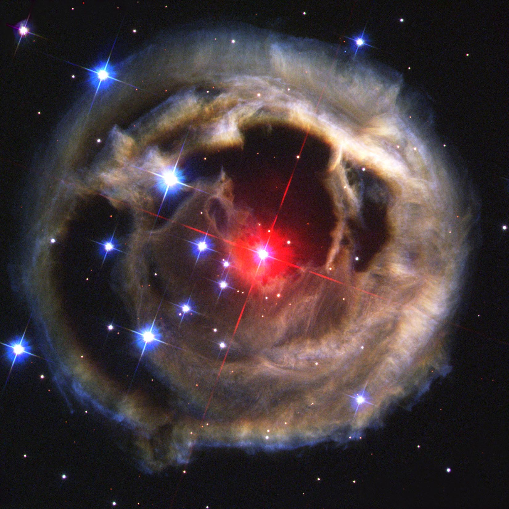 Light echo around V838 Monocerotis In January 2002, a dull star in an obscure constellation suddenly became 600,000 times more luminous than our Sun, temporarily making it the brightest star in our Milky Way galaxy. The mysterious star, called V838 Monocerotis, has long since faded back to obscurity. But observations by NASA's Hubble Space Telescope of a phenomenon called a "light echo" around the star have uncovered remarkable new features. These details promise to provide astronomers with a CAT-scan-like probe of the three-dimensional structure of shells of dust surrounding an aging star.